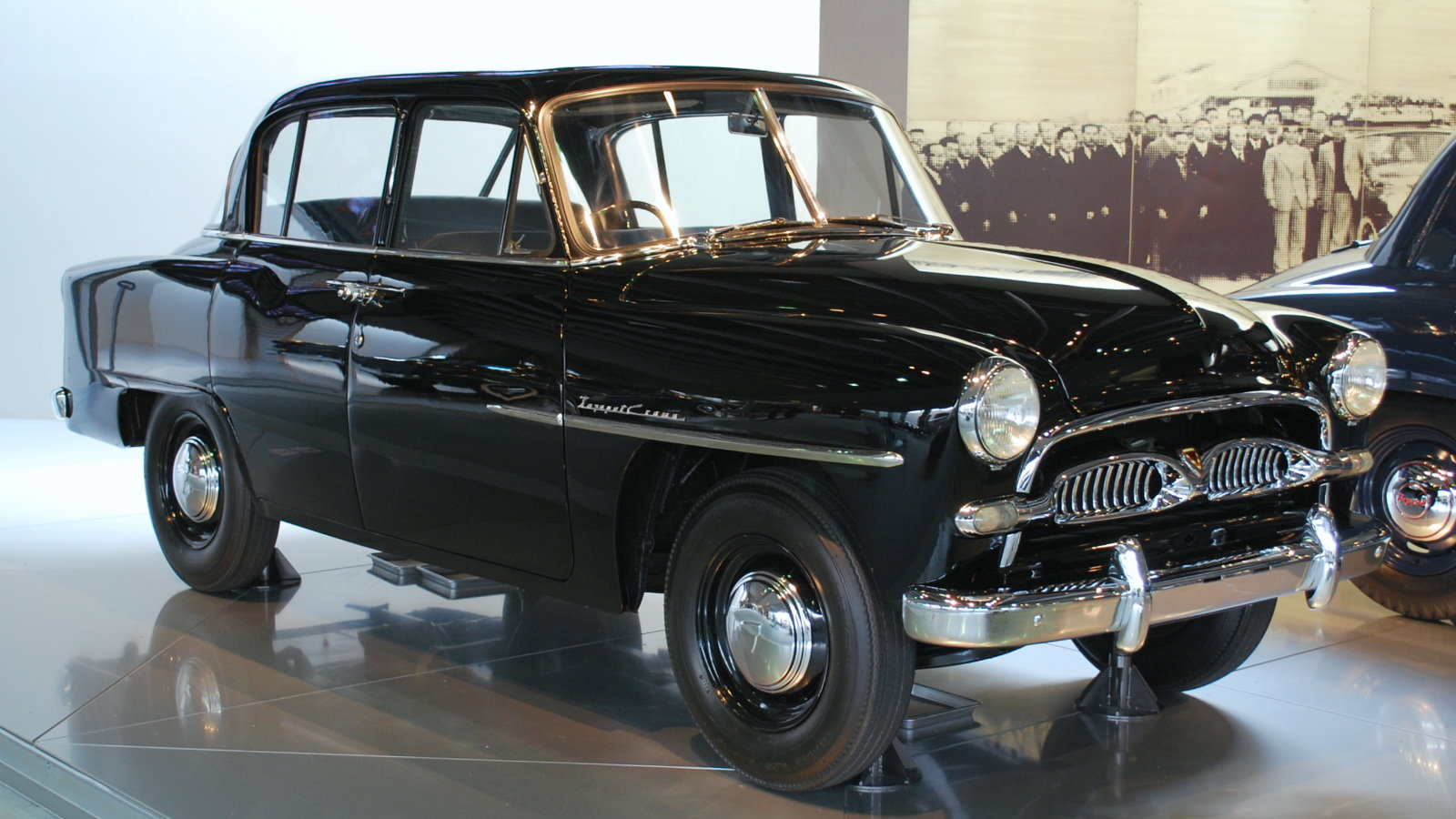 1st generation Toyopet Crown Model RS (1955/1 - 1958/10)